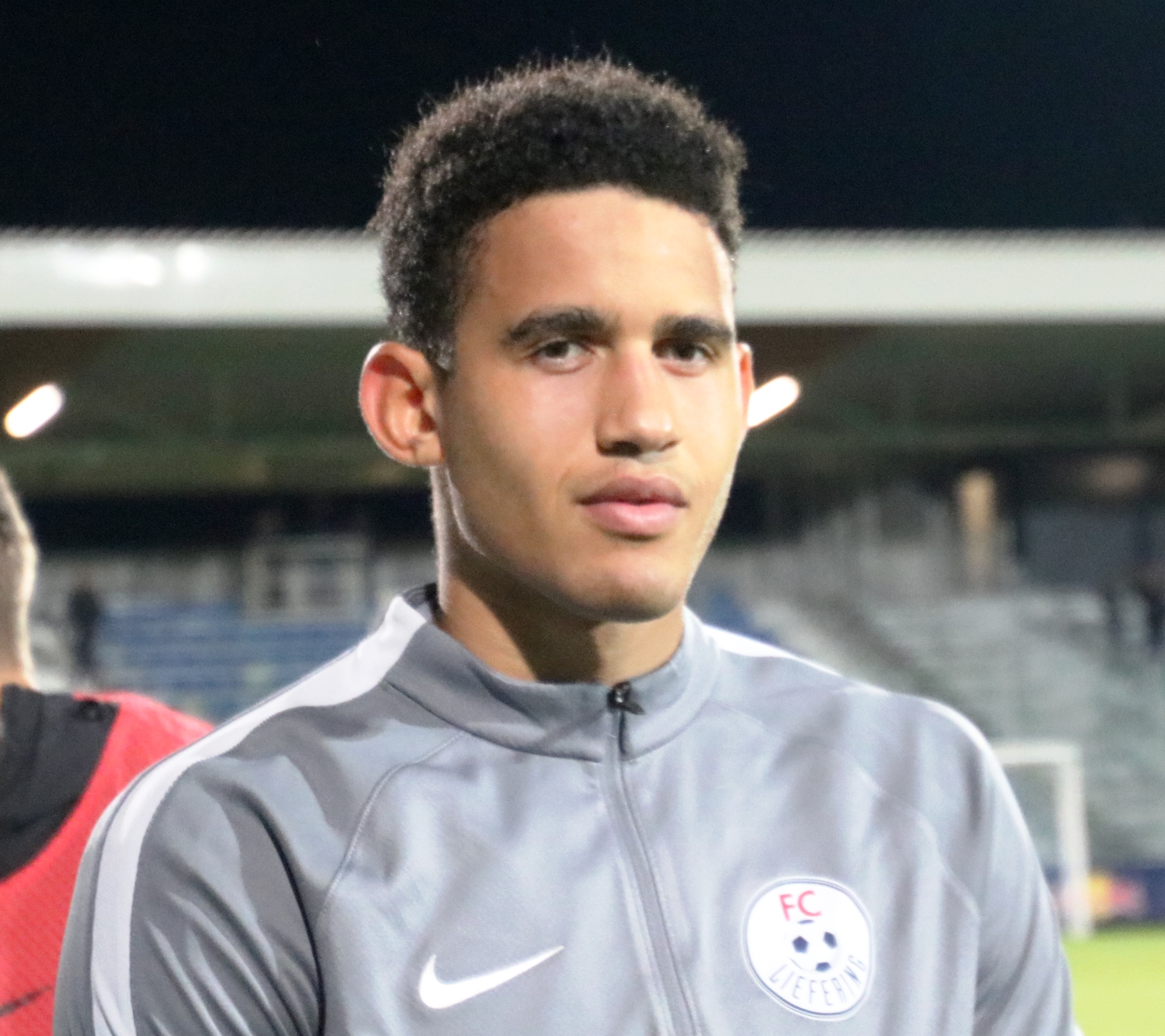 league match Austria 2nd league